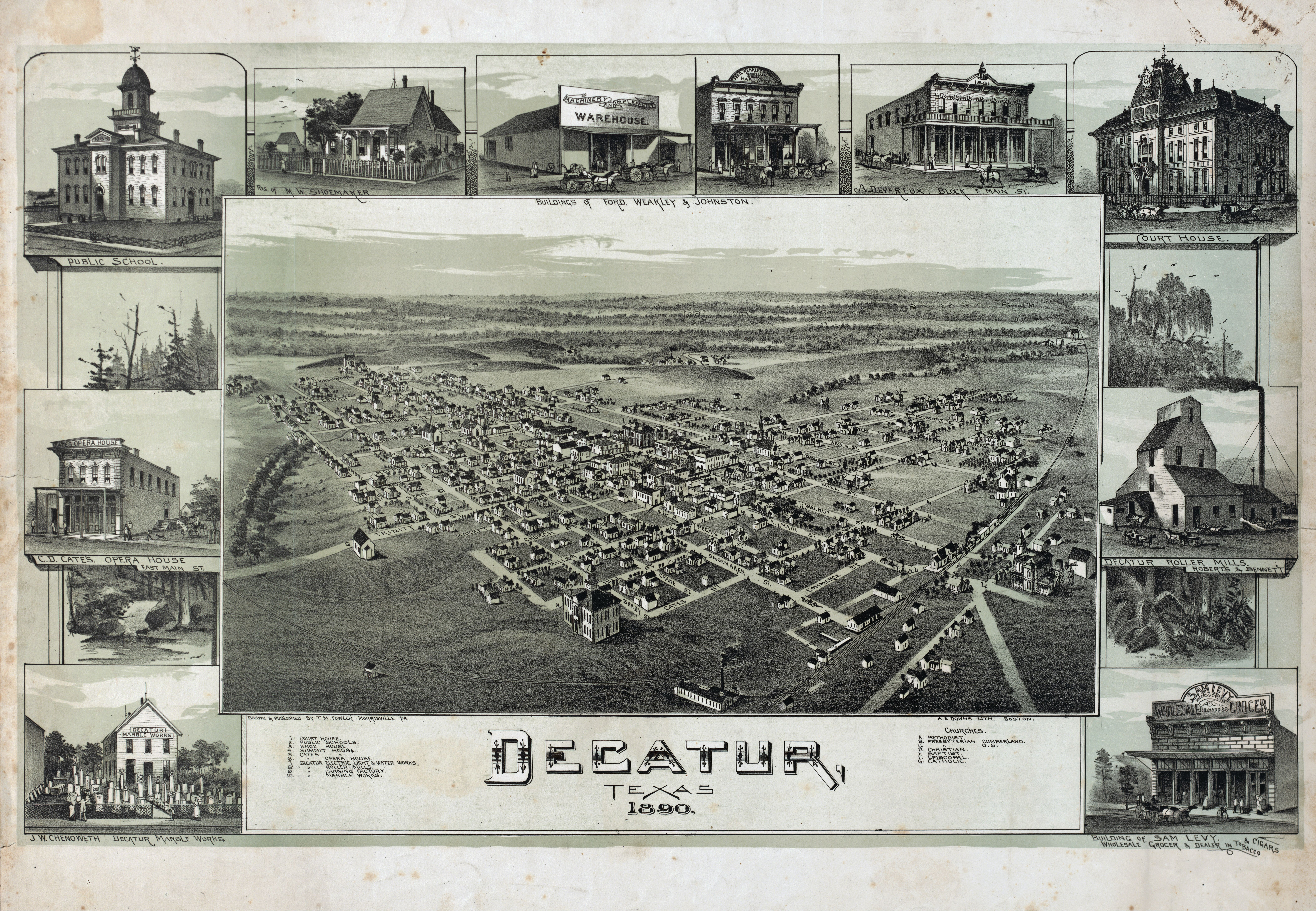 Decatur, Texas in 1890. Decatur, Texas, 1890, 1890. Toned lithograph, 11 x 18.7 in., by A. E. Downs. Star of the Republic Museum, Washington, Texas.